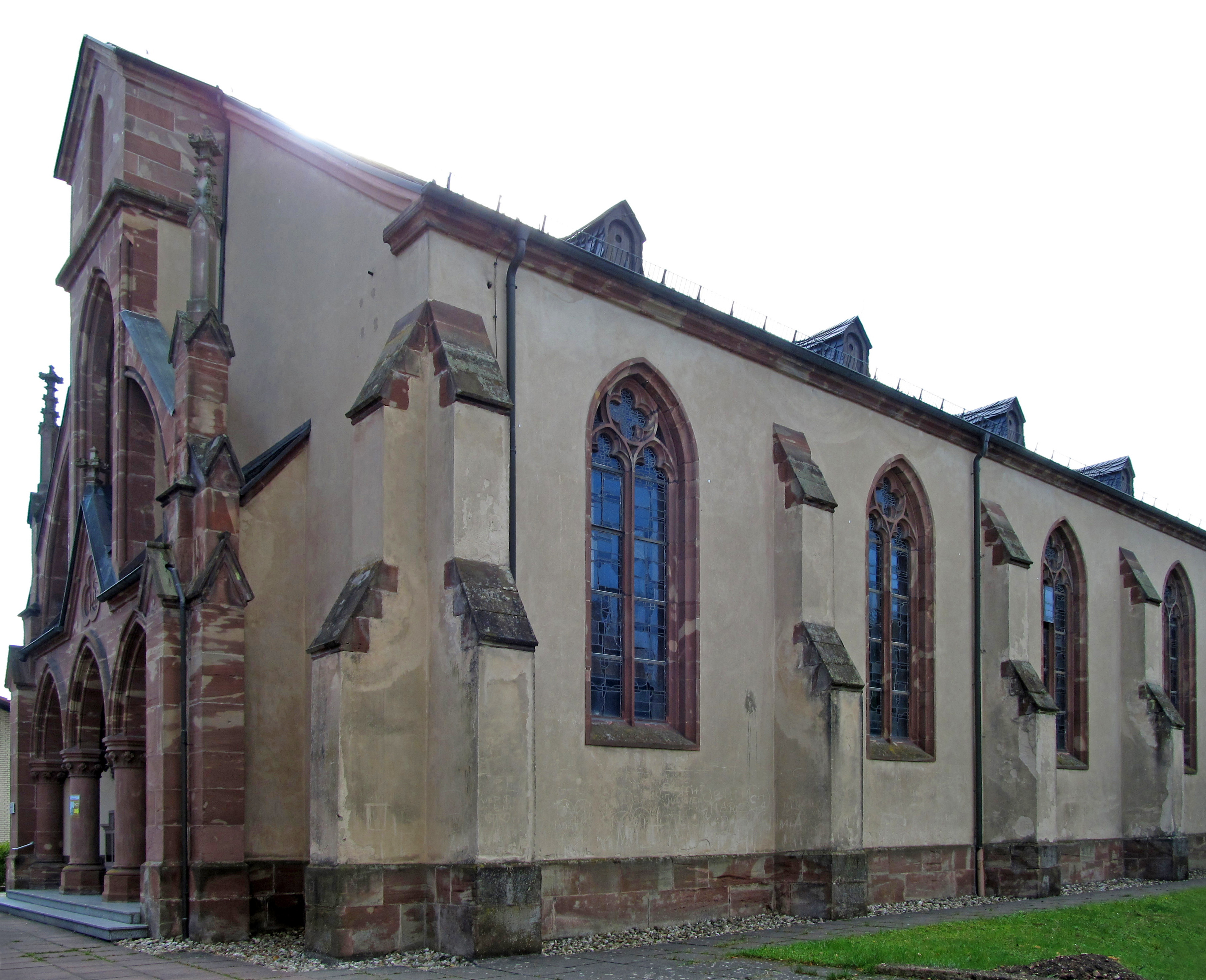 The Catholic Church of St. Walfridus in Rilchingen-Hanweiler, in the municipality of Kleinblittersdorf, Regional Saarbruecken